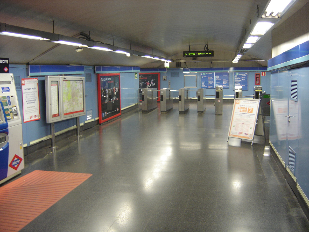 Madrid Metro Line 1 vestibule